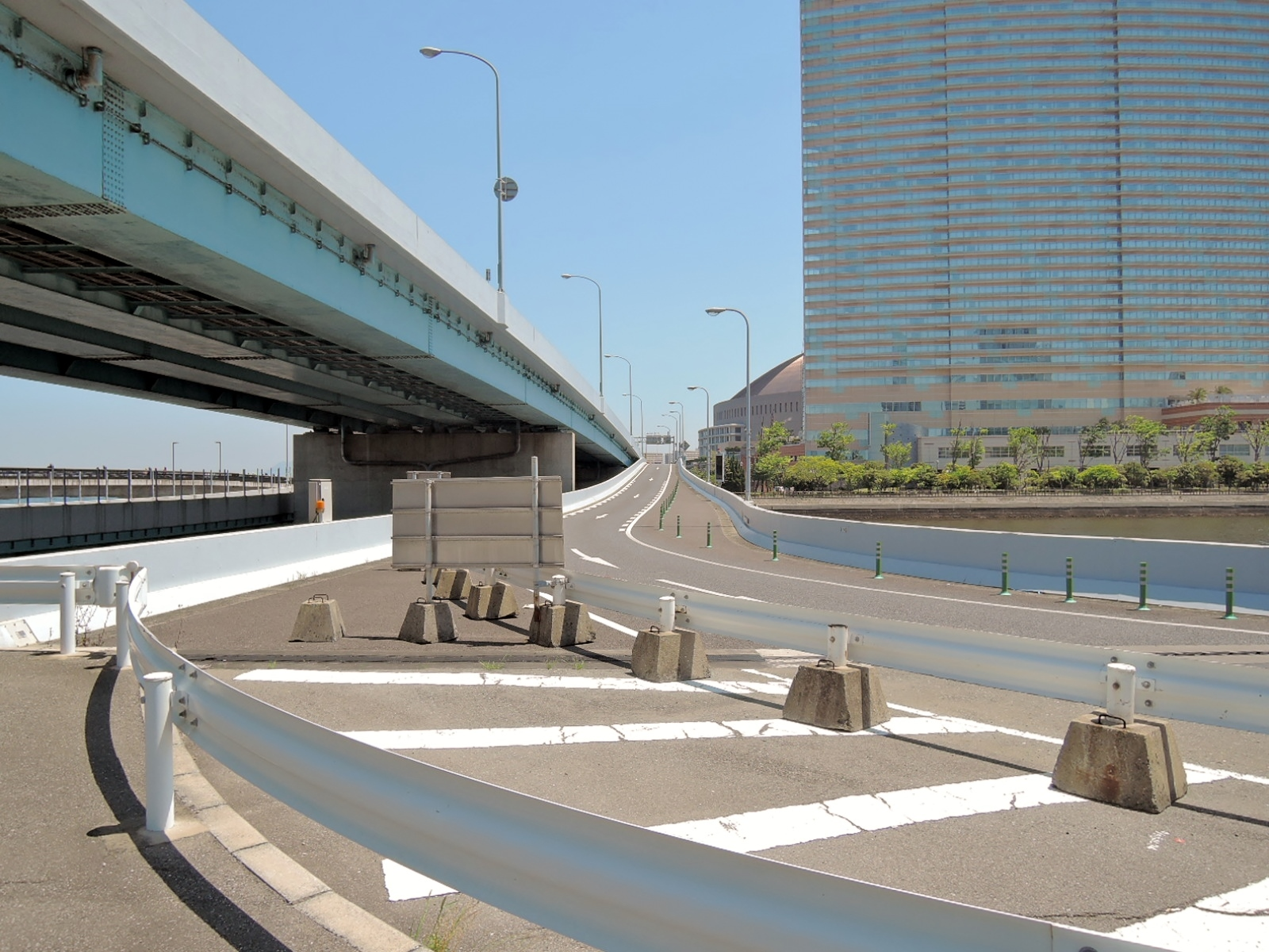 Momochi Interchange on the Fukuoka Expressway Circular Route, exit from Kashii and Tenjin. The Hawks Town can be seen on the right